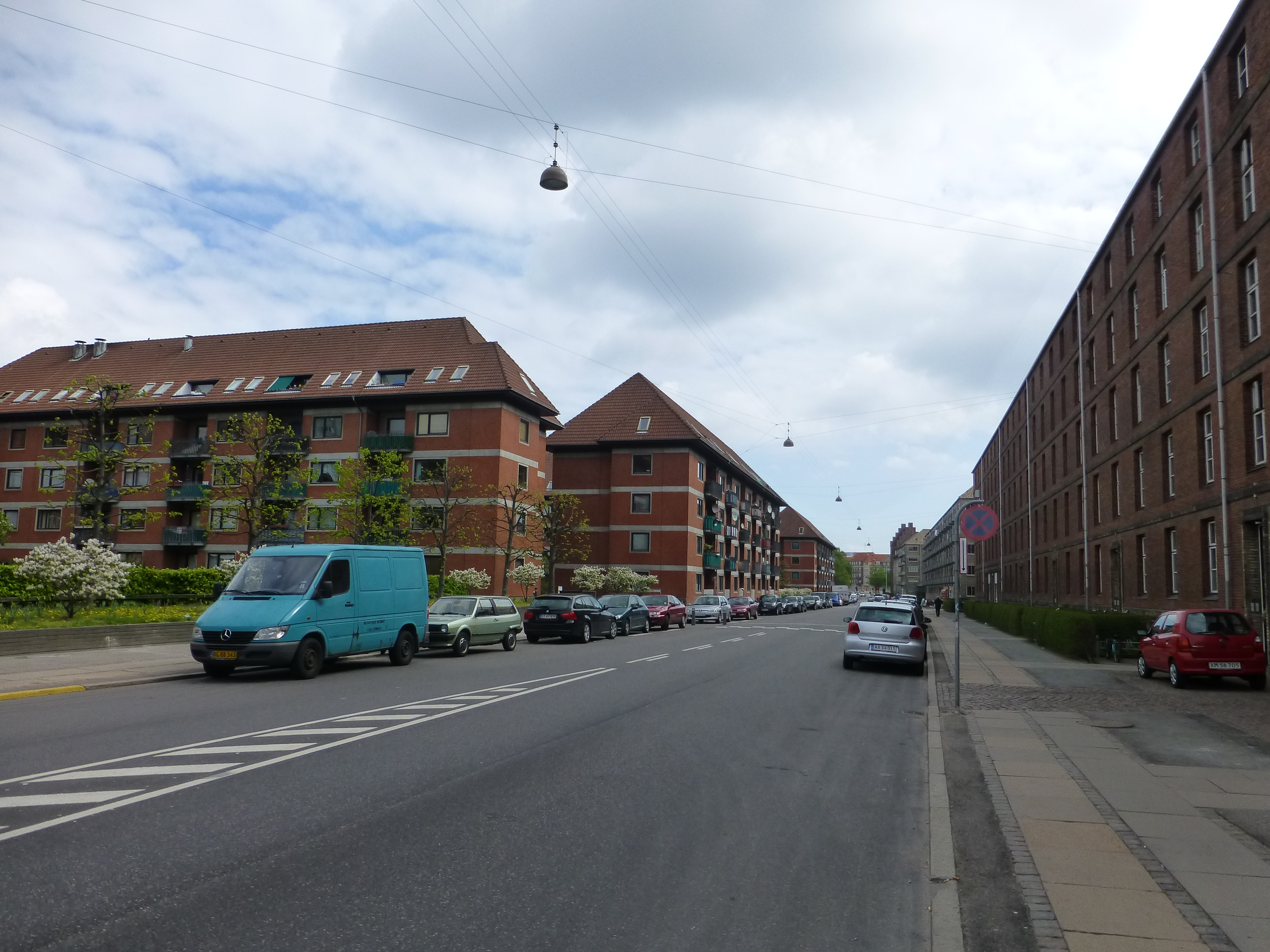 The street Vognmandsmarken in Østerbro in Copenhagen. At the left the housing cooperative AAB Afdeling 103.